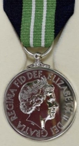 Long service award to Special Constabulary in British Overseas Territories.